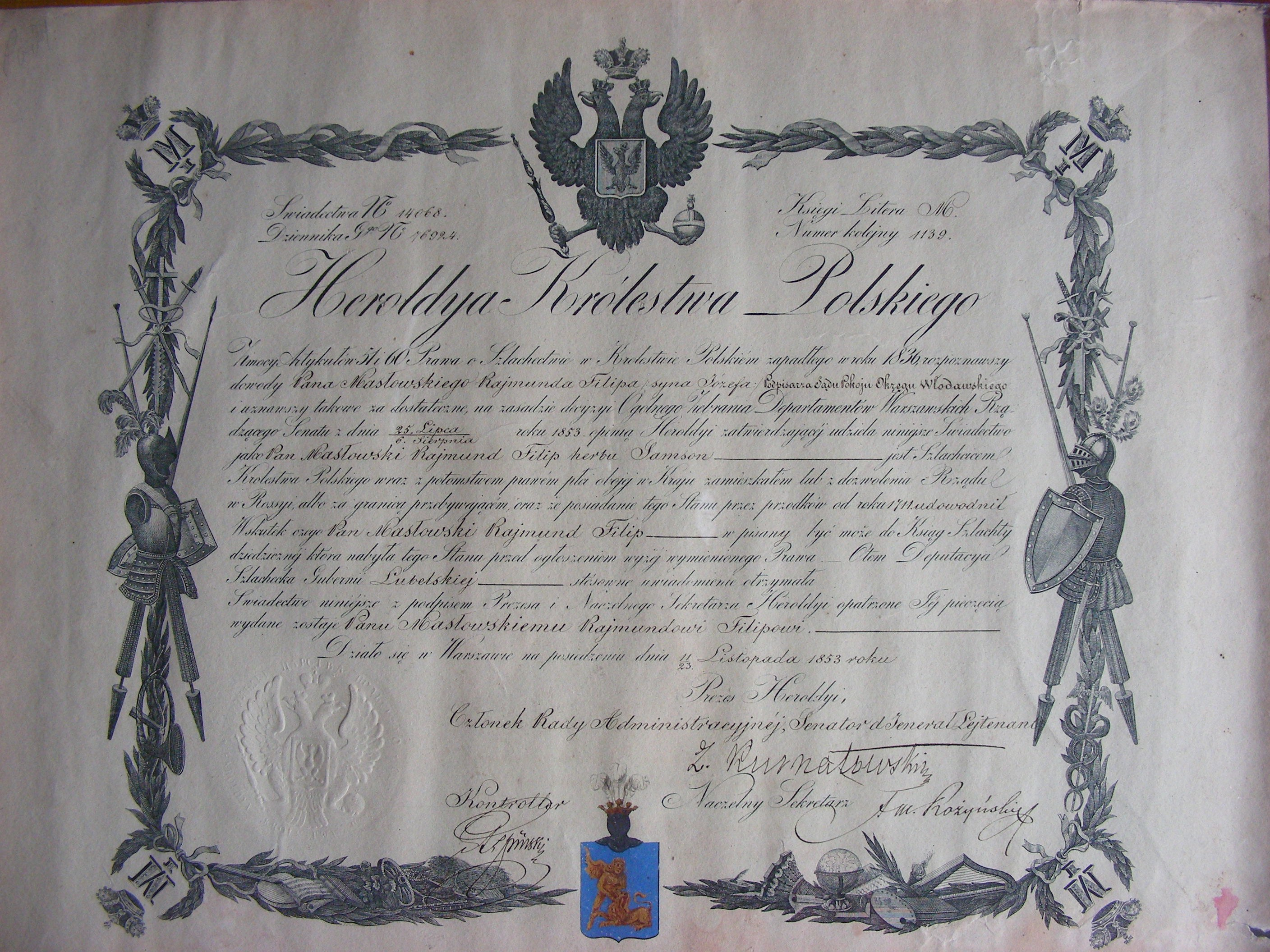 Noble certificate given in 1853 in Warsaw (Poland) to Rajmund Masłowski (born 1825 in Warsaw, died in 1897 in Radom, Poland) - obverse side